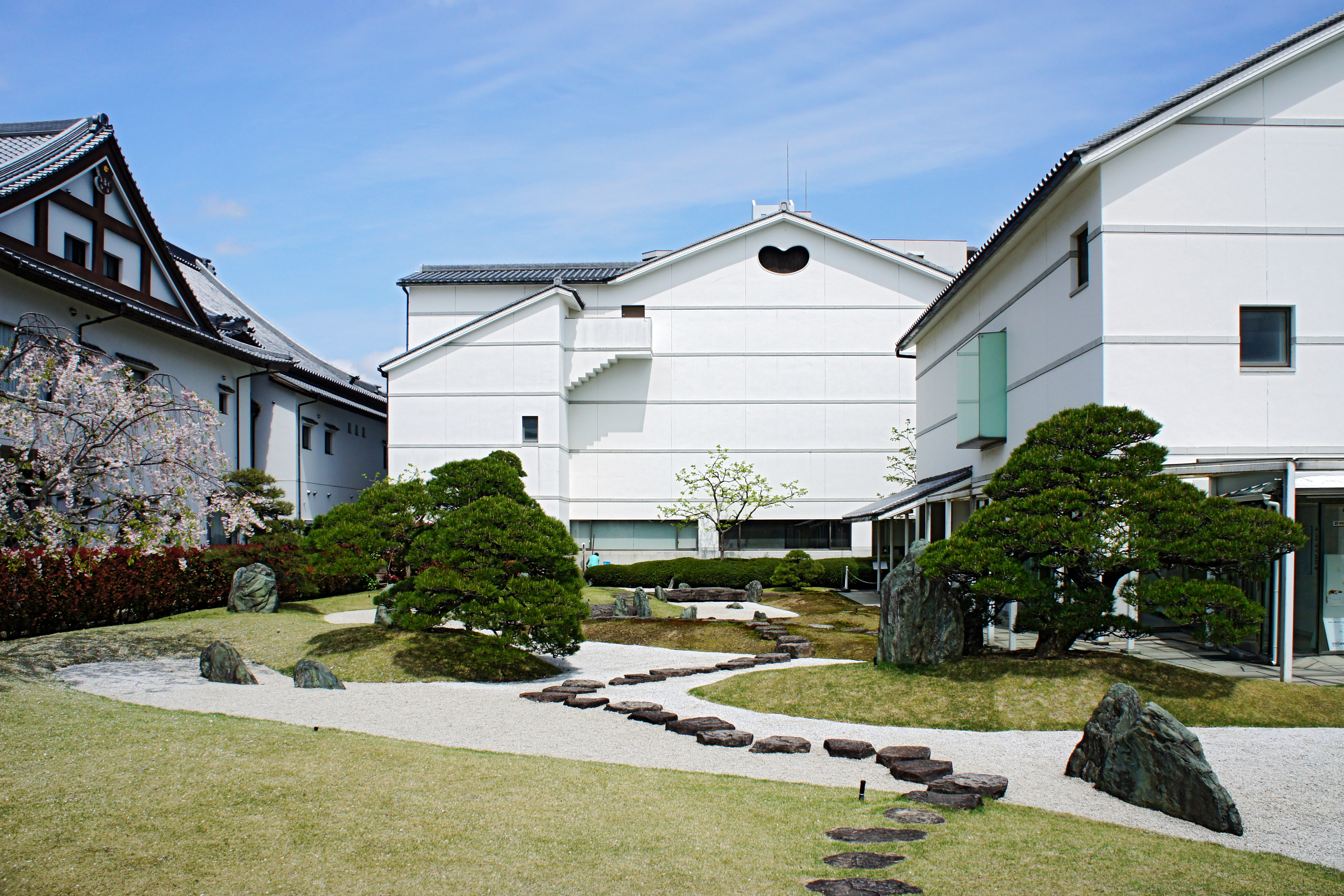 Itami City Museum of Art and Kakimori-bunko in Itami, Hyogo prefecture, Japan